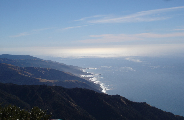 Used with permission of copyright owner Dennis Poulin. Taken from summit of Cone Peak November 2005.